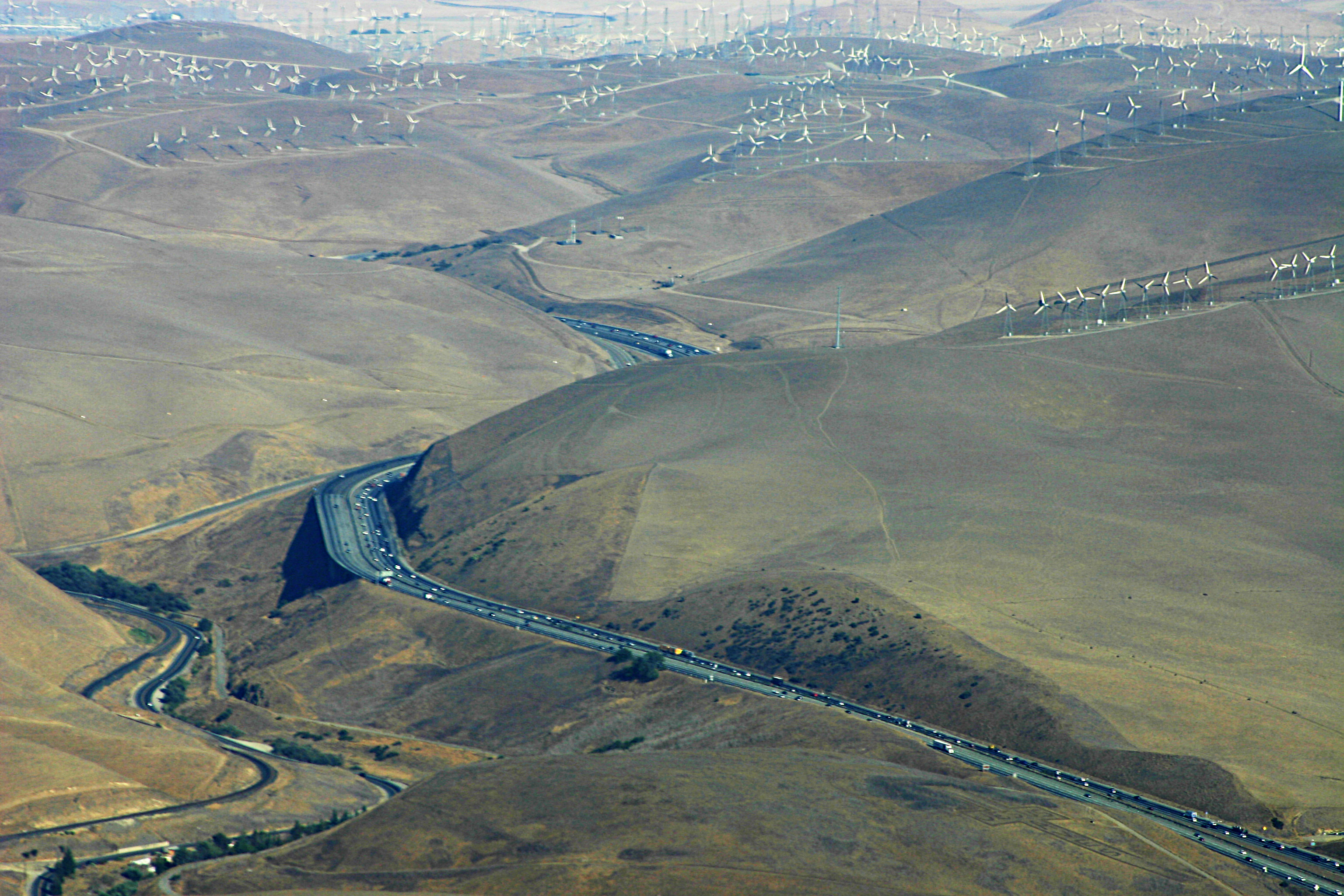 aerial photo of Interstate 580 through the Altamont Pass Wind Farm